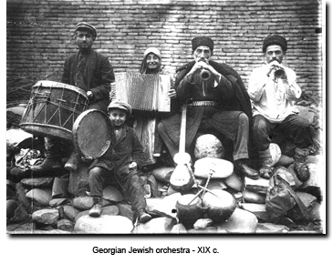 Georgian Jewish orchestra 1800s